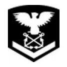 This is the sleeve insignia for a Petty Officer Third Class in the USNLCC.